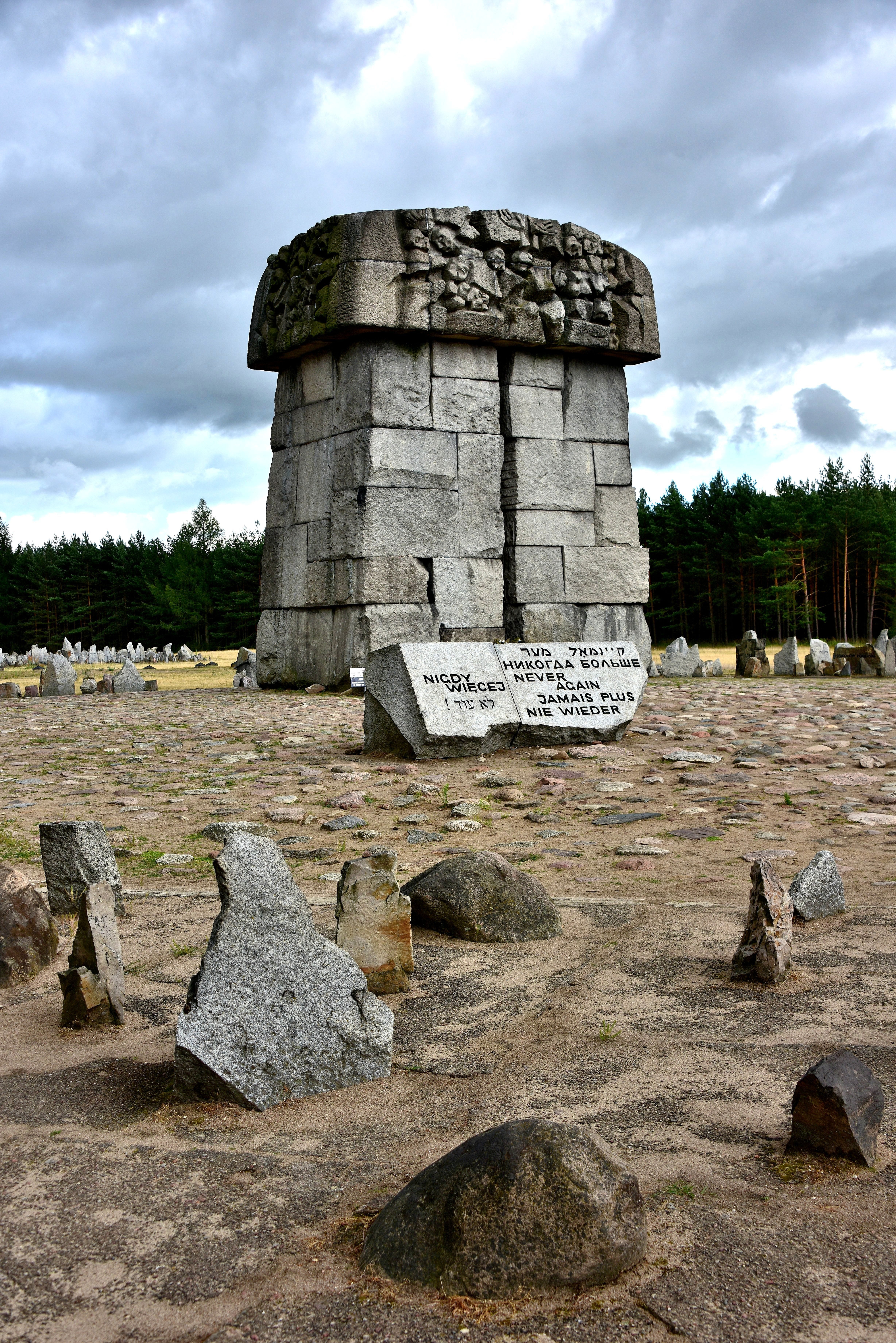 Site of the former Treblinka II death camp